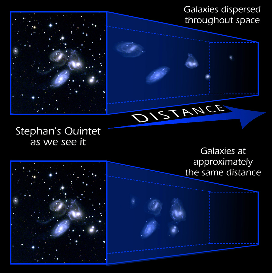 The top panel of this diagram illustrates an alignment of galaxies streched out across space. The bottom panel shows a clump of galaxies at approximately the same distance.